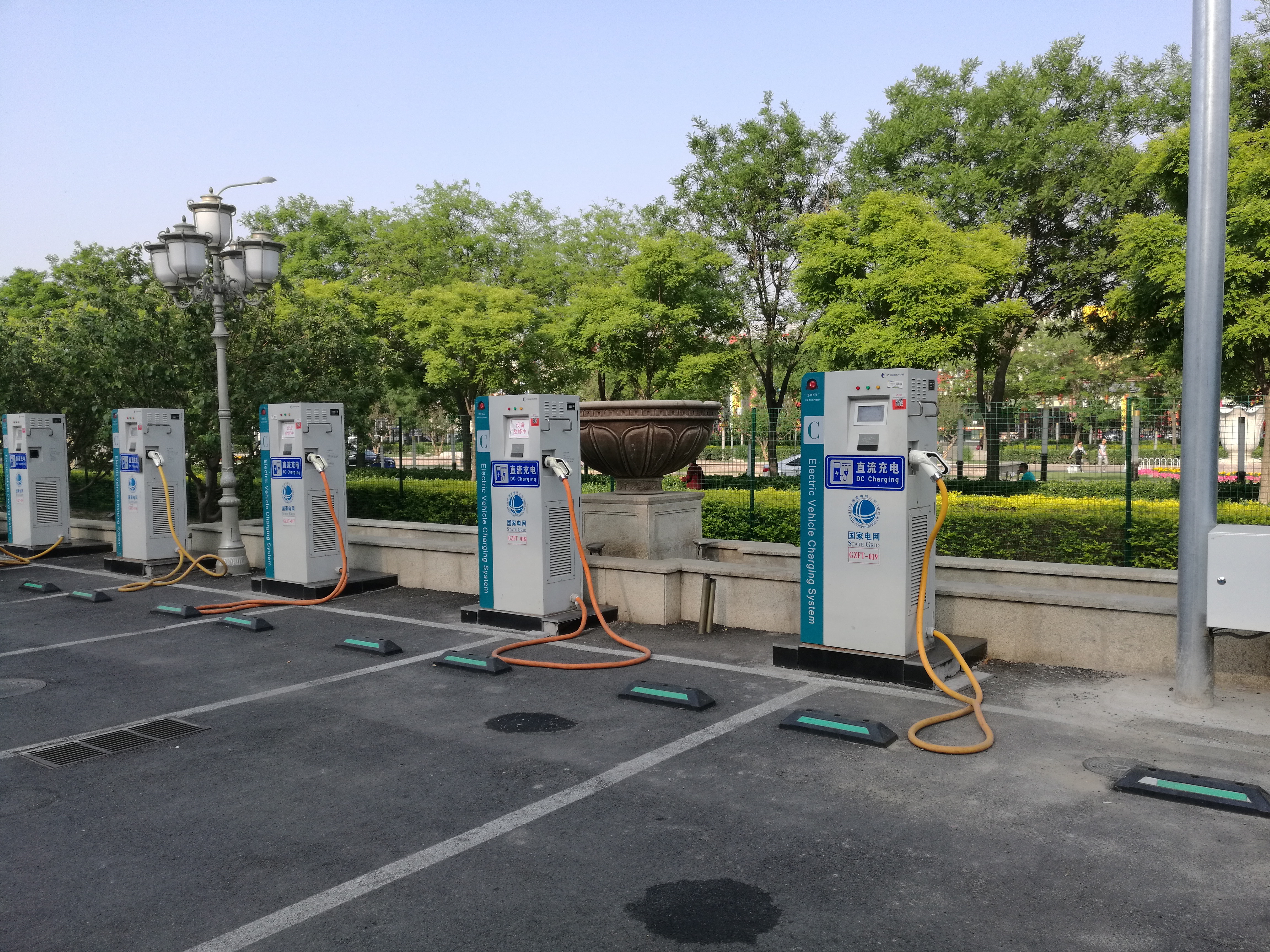 StateGrid Charge Point 中文（中国大陆）: 国家电网充电桩